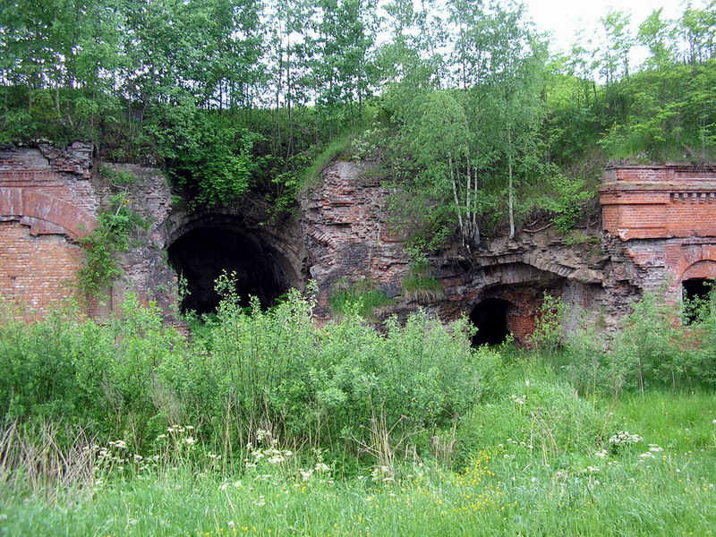 Kaunas Fortress, Lithuania.